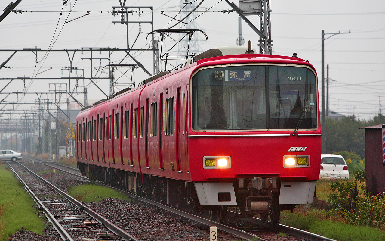 Meitetsu 3500 series EMU ( II ) ( 3511F at Aotsuka Sta. )